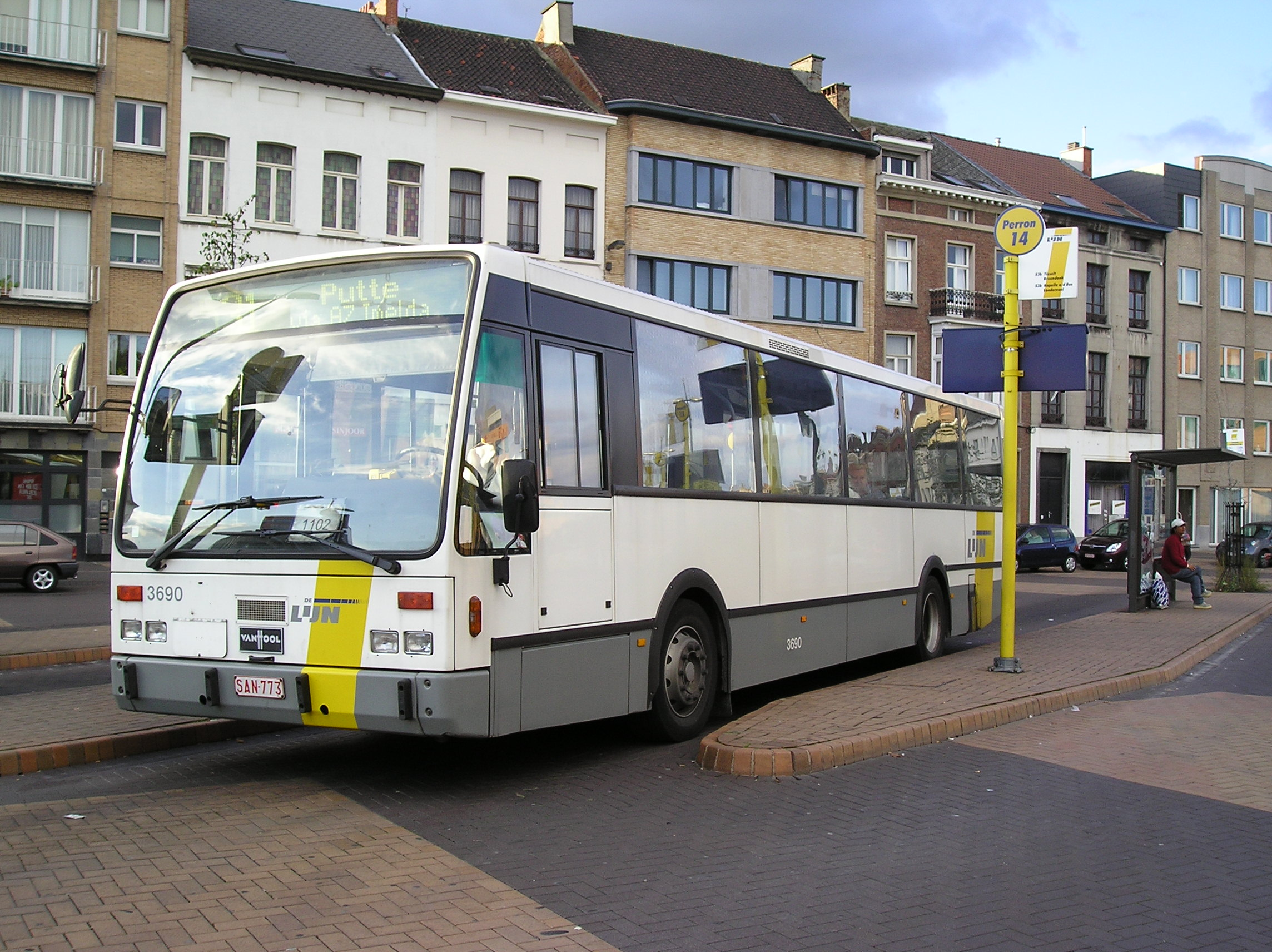 Van Hool bus of the Flemish public transport authority De Lijn in Mechelen, on the train station square. Year built 2000.